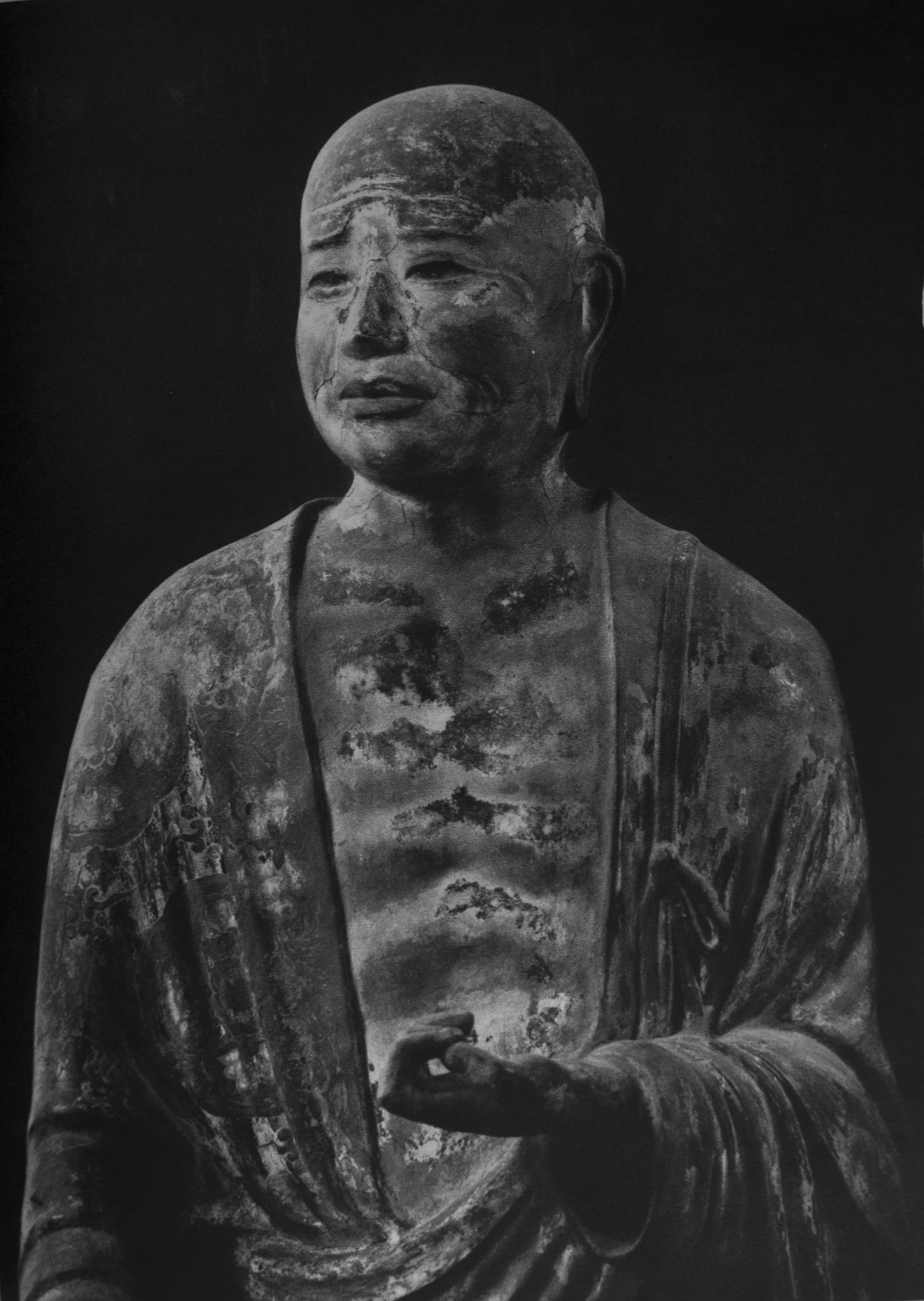 Dry lacquer. Kofukuji, Nara, Japan